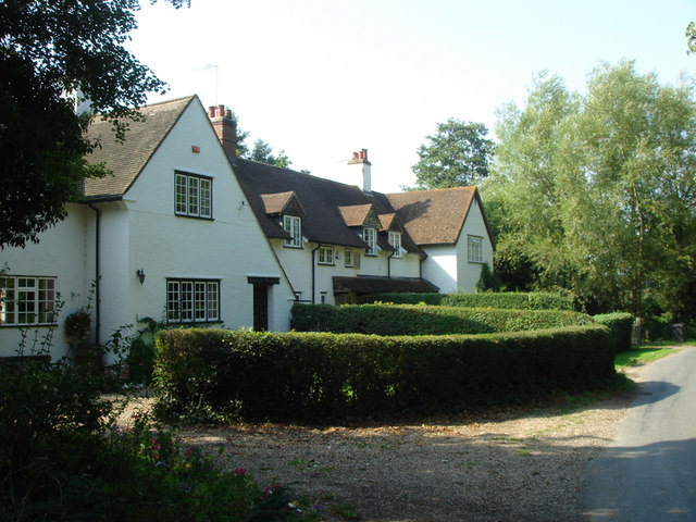 Kent Cottages. Old Mill Cottages in Hamptons Road, Kent, United Kingdom.